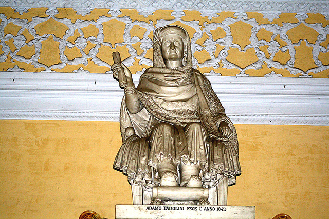 White marble statue of Begum Samru in the Basilica of Our Lady of Graces in Sardhana